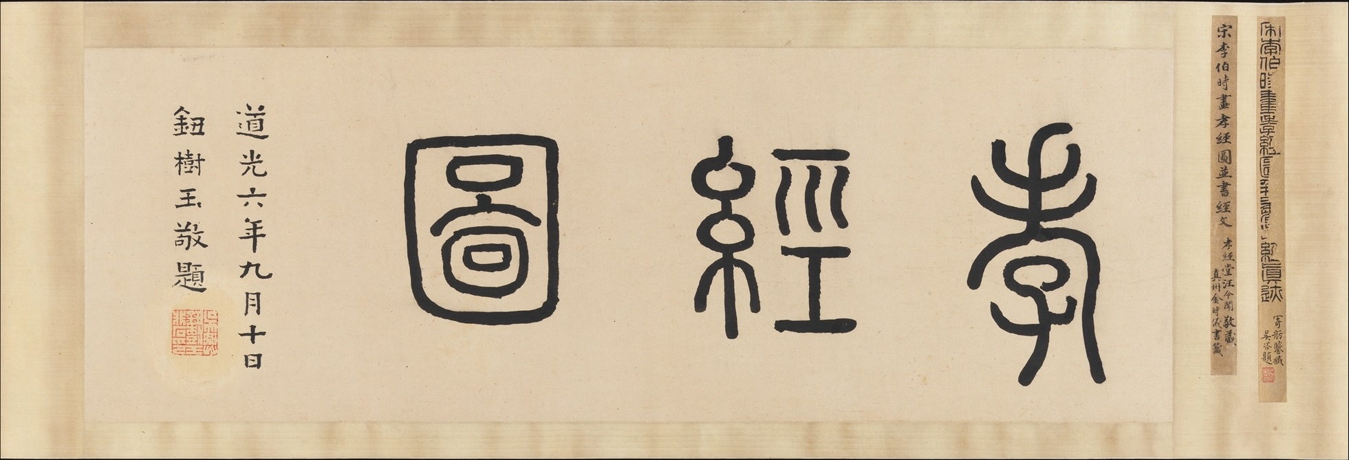 Frontispiece of the Classic of Filial Piety (孝經), a document from the Confucian canon. Calligraphy is by Niu Shuyu (鈕樹玉) (1760–1827). Three characters are in seal script, and two columns are in standard script. Translation provided by the museum: Classic of Filial Piety Niu Shuyu respectfully inscribed this on the tenth day of the ninth month of the sixth year of the Daoguang reign era.